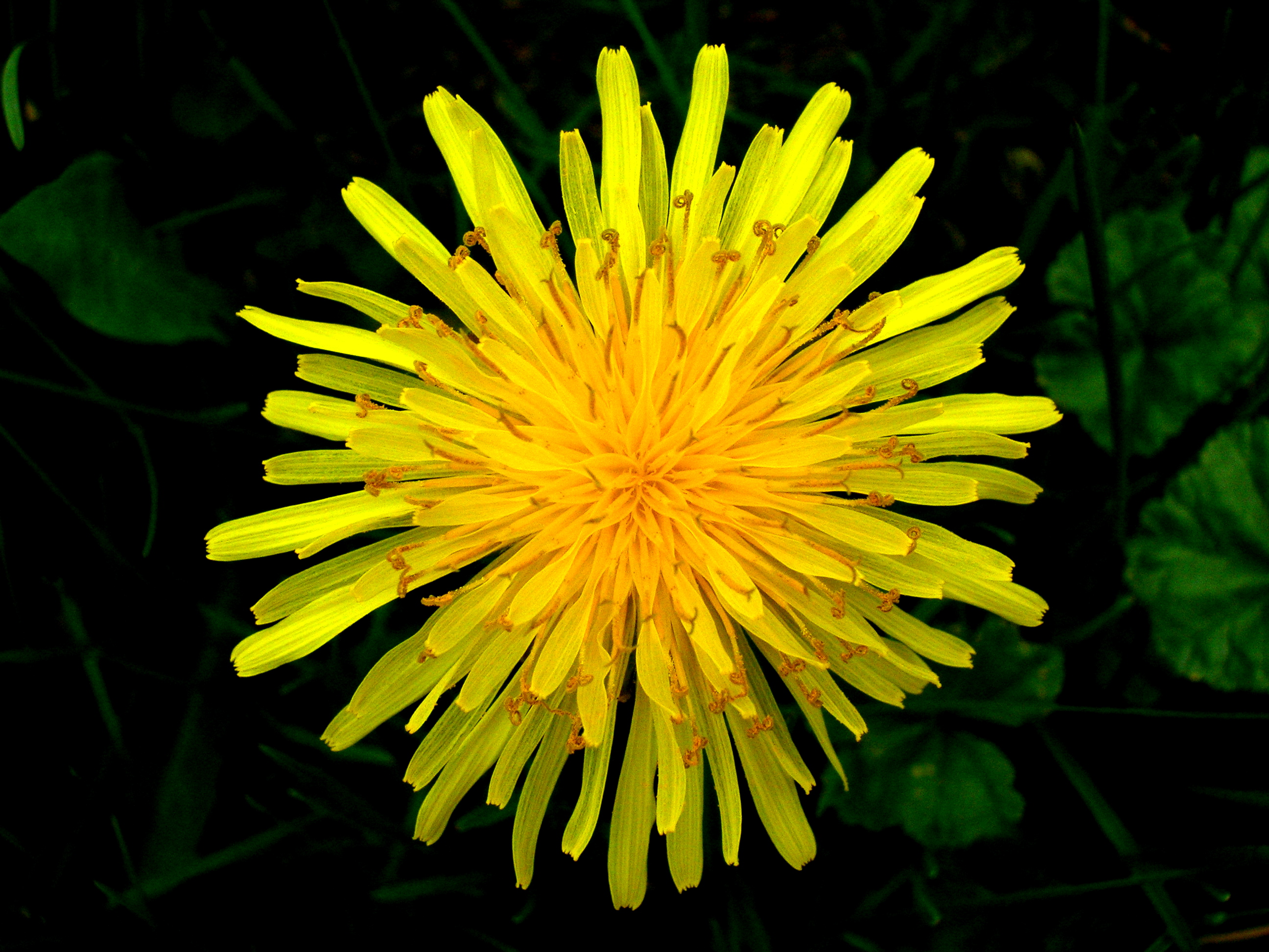 Close up photo of a dandelion.